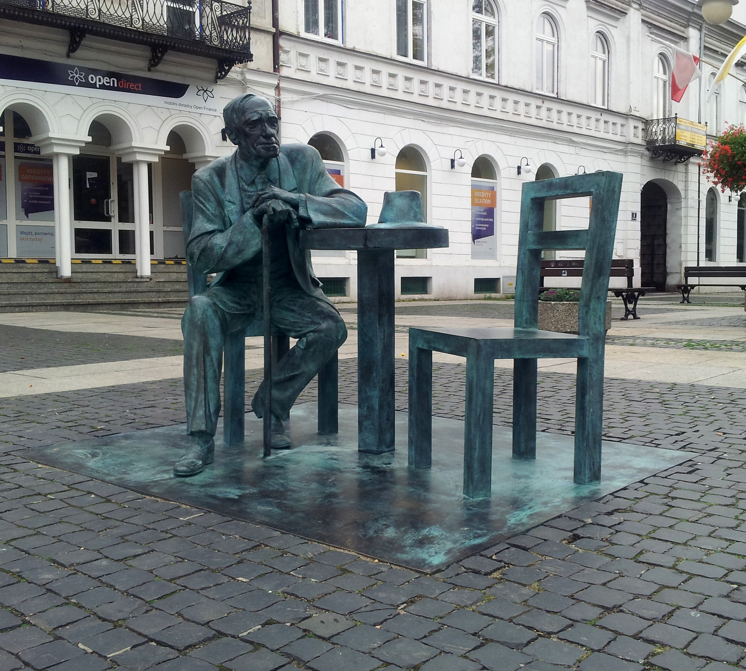 Leszek Kołakowski Monument in Radom, Poland